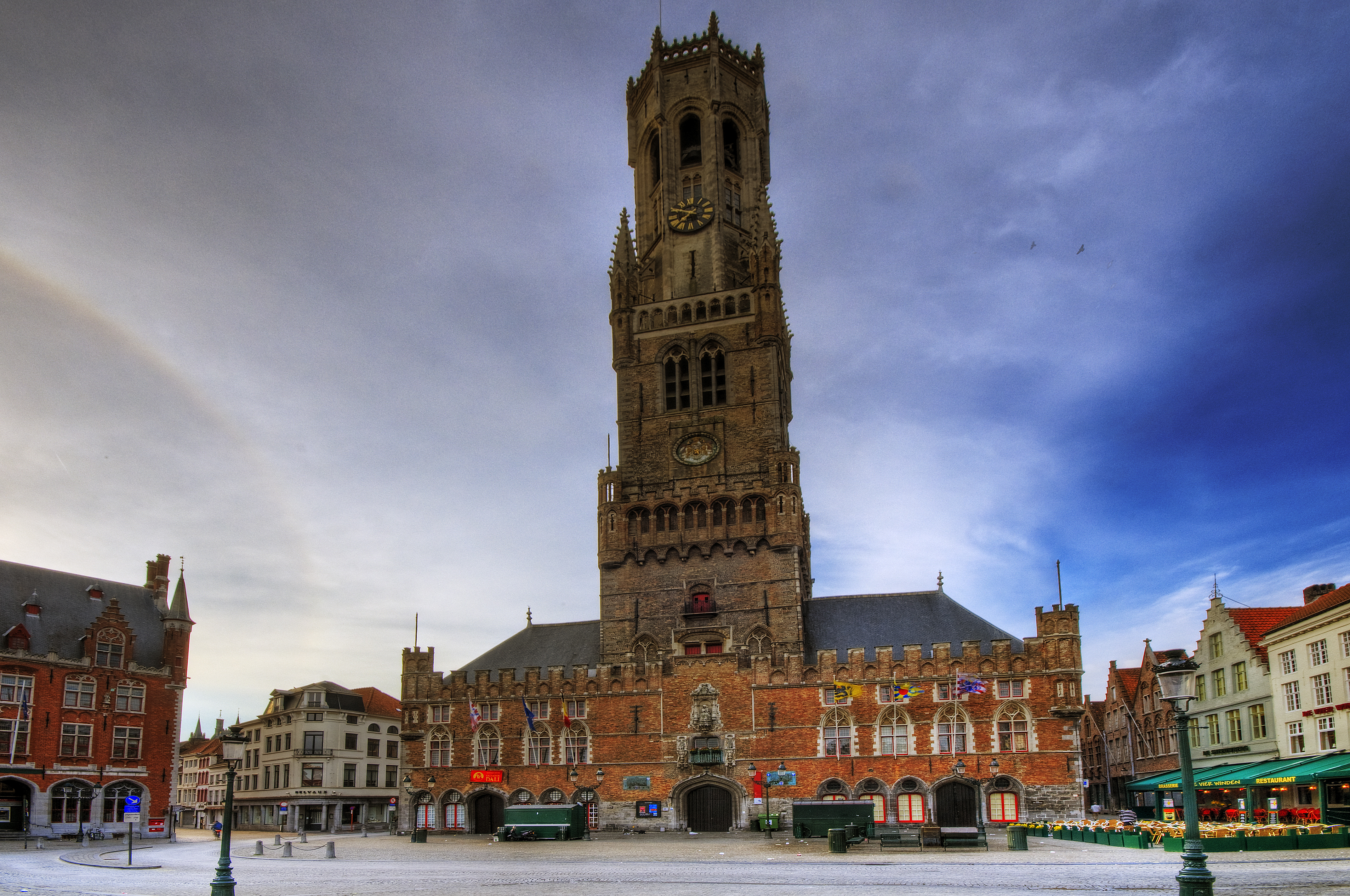 Please take a large view! Bruges (Dutch: Brugge) is the capital and largest city of the province of West Flanders in the Flemish Region of Belgium. It is located in the northwest of the country. The historic city centre is a prominent World Heritage Site of UNESCO. It is egg-shaped and about 430 hectares in size. The area of the whole city amounts to more than 13,840 hectares, including 193.7 hectares off the coast, at Zeebrugge ("Seabruges" in literal translation). The city's total population is more than 117,000, of which around 20,000 live in the historic centre. Bruges has, because of its port, a significant economic importance and is also home to the College of Europe. From Wikipedia, the free encyclopedia